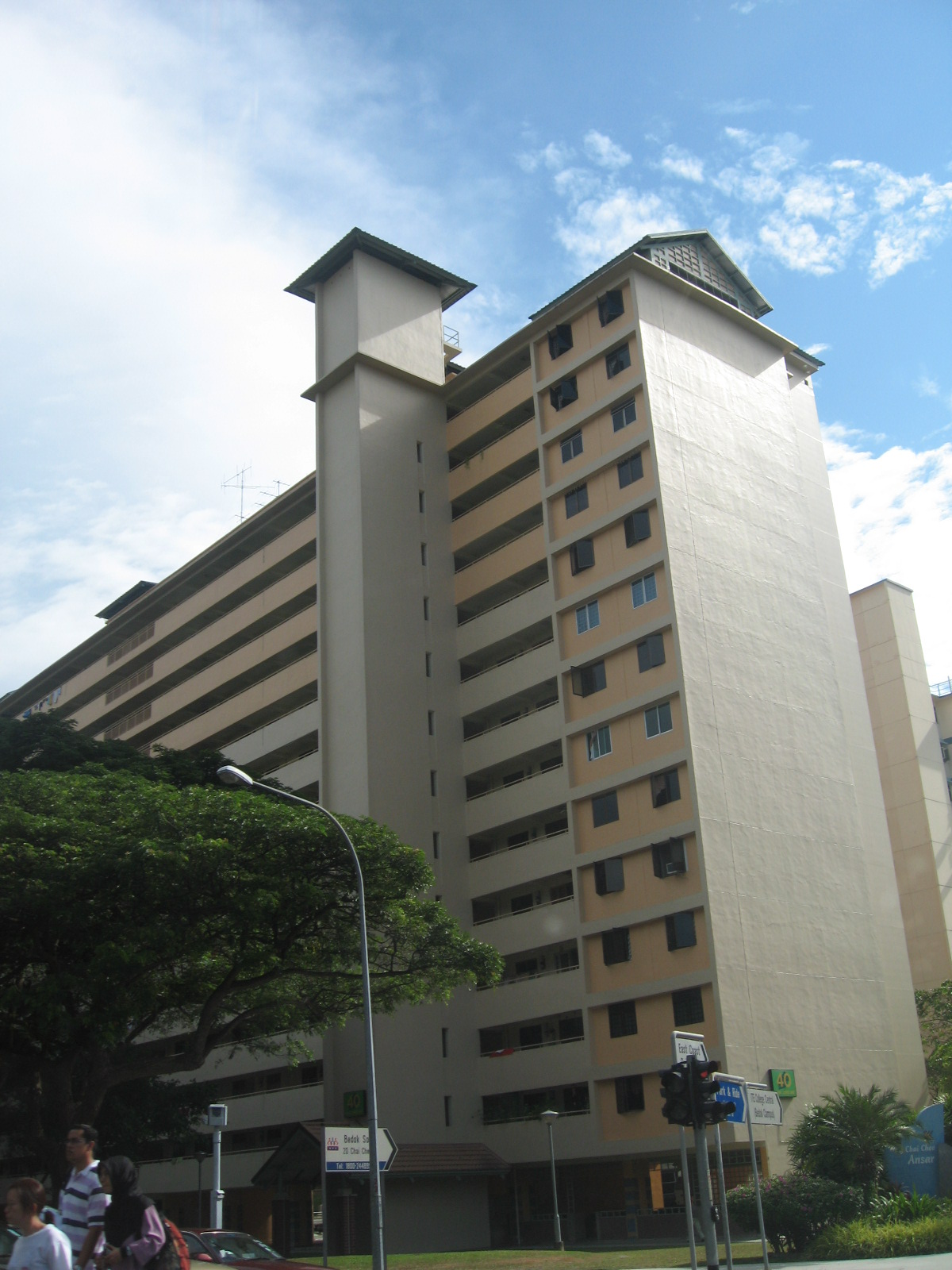 Chai Chee Ansar.